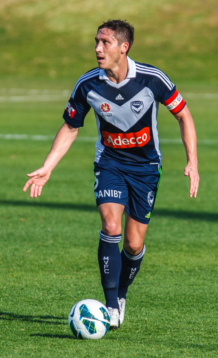 Mark Milligan playing in a pre-season game between the Central Coast Mariners and Melbourne Victory on 16/09/2012.